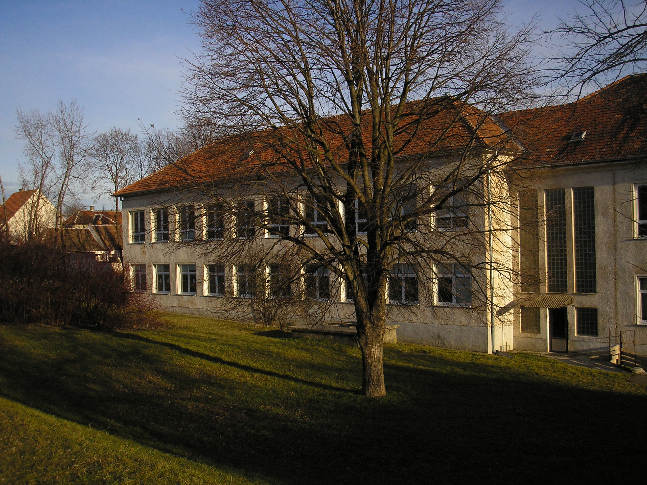 School in Pastuchov